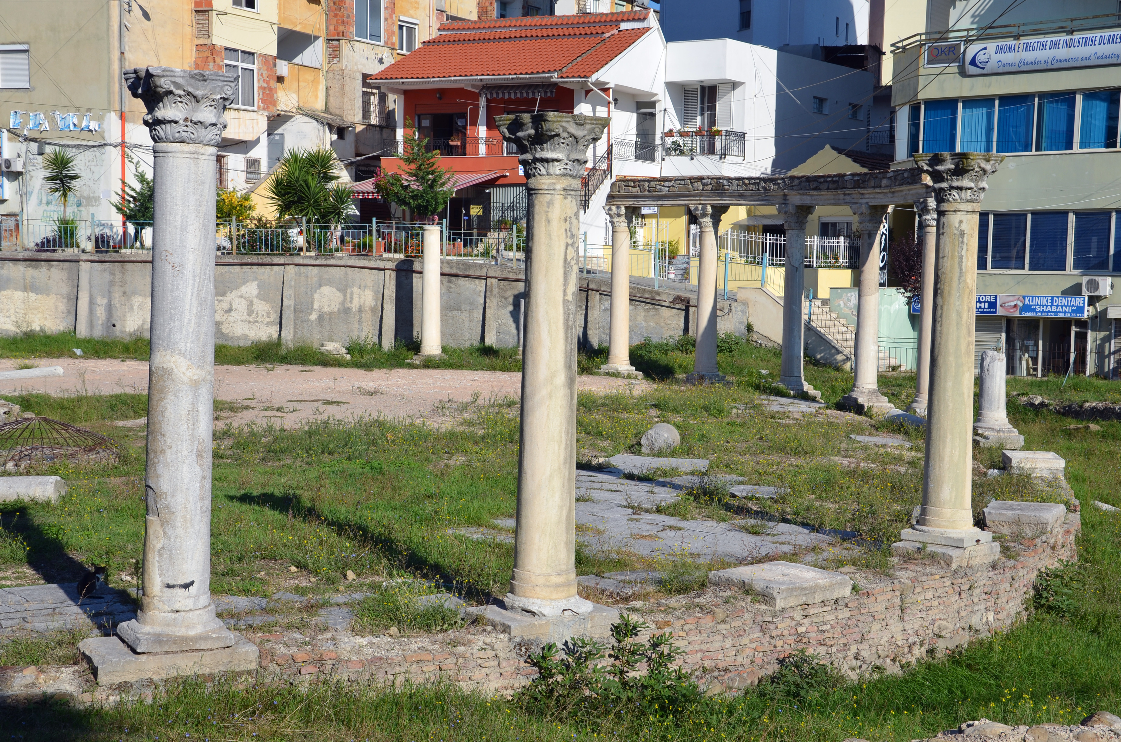 Ancient Roman forum in Durres, Albania